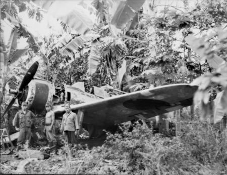 A Japanese Nakajima Ki-43-I Hayabusa (s/n 750, Allied code name "Oscar") in dense jungle 6 km from Vunakanau airfield, Rabaul, in September 1945.This plane entered service in January 1943 and to Truk as part of the 1st and 11th Sentai. Later it was move to served Rabaul, New Britain. The plane had severe front-end damage from its final landing, but was repaired by Japanese servicemen with parts salvaged from a number of other Ki-43s. It was then forwarded to Australia for the Australian War Memorial. It was sold in 1954 to New Zealand and is today (airworthy) on display at the Flying Heritage Collection, Everett, Washington (USA).